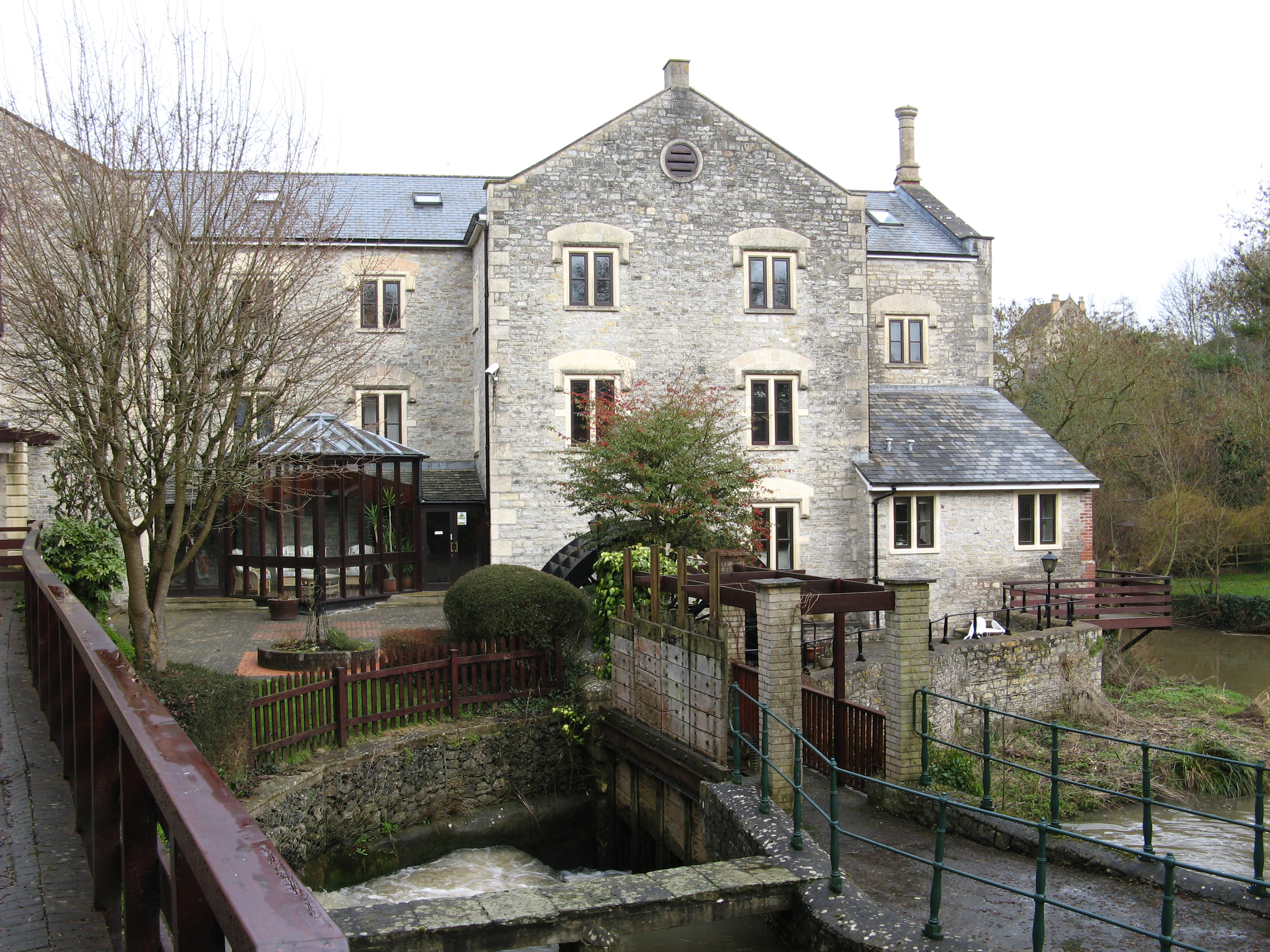 Albert Mill, Dapps Hill, Keynsham. Now converted into residences. Grade II listed as an industrial monument.[1]